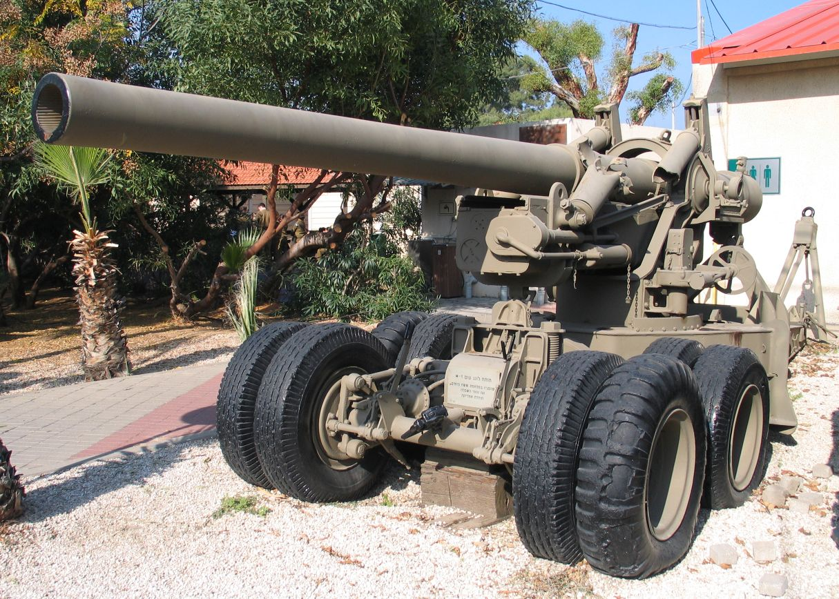 Description: US M1 155 mm gun Long Tom in Batey ha-Osef Museum, Tel Aviv, Israel. Source: Photo by me, User:Bukvoed.